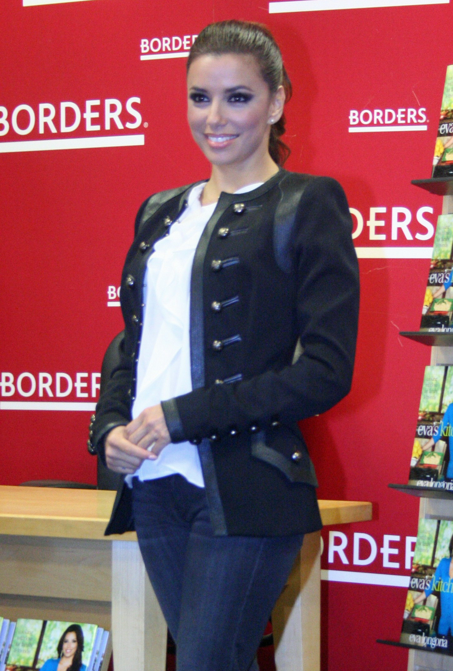 Eva Longoria at a book signing for her book Eva's Kitchen at a Borders in Columbus Circle, New York City.